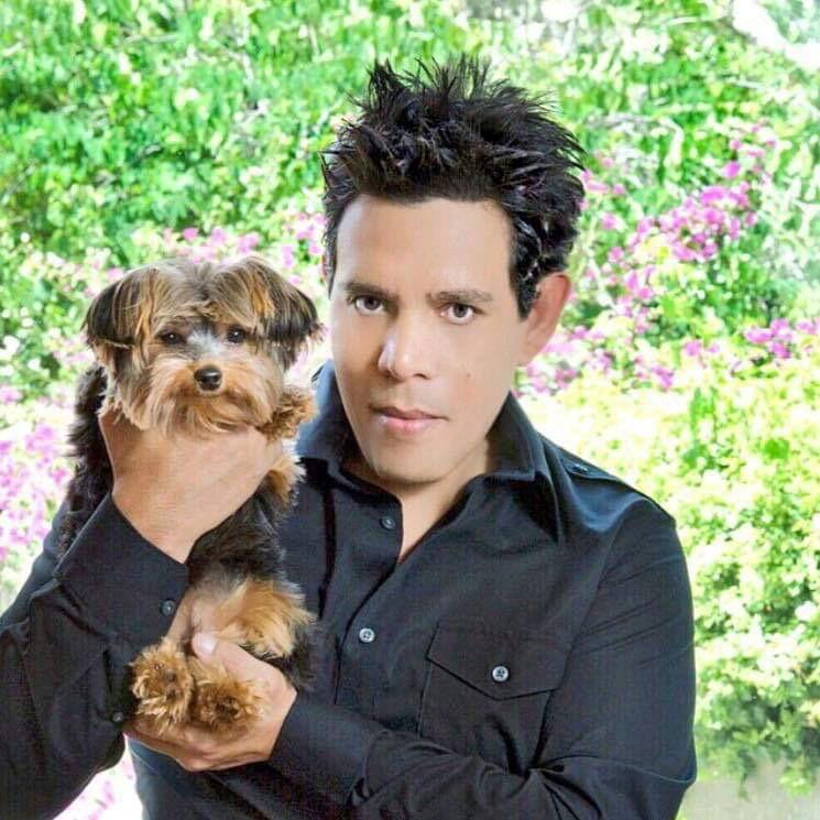 Raul Julia-Levy